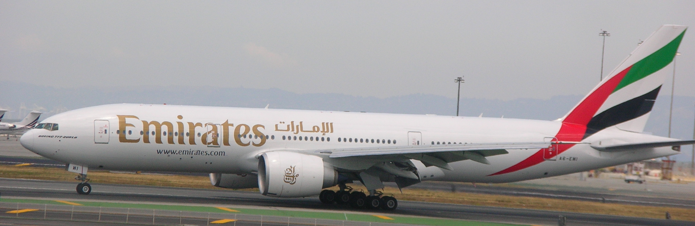 Emirates Boeing 777-21H/LR, tail number A6-EWI, at San Francisco International Airport (SFO).